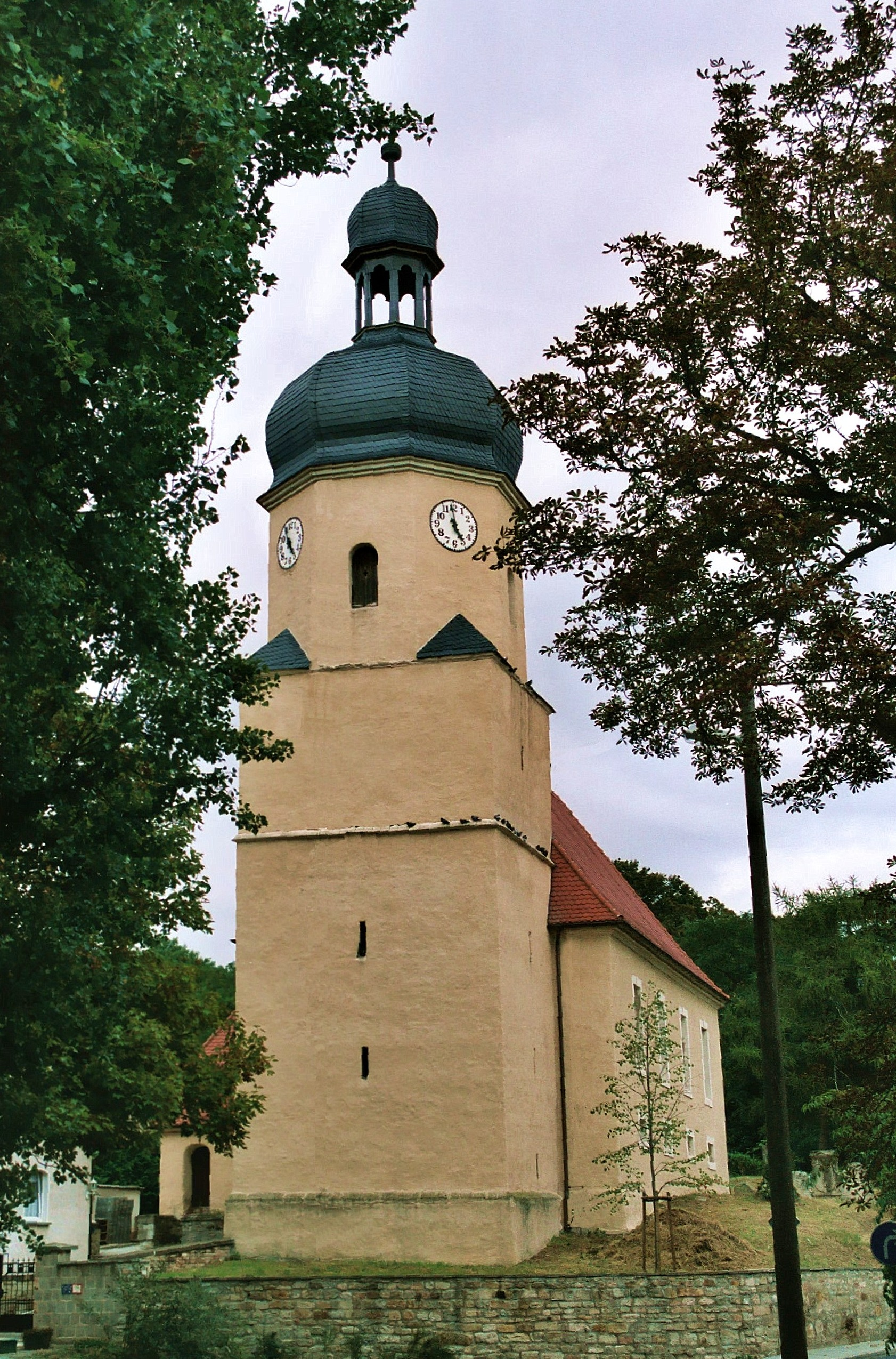 Fienstedt (Salzatal), the village church